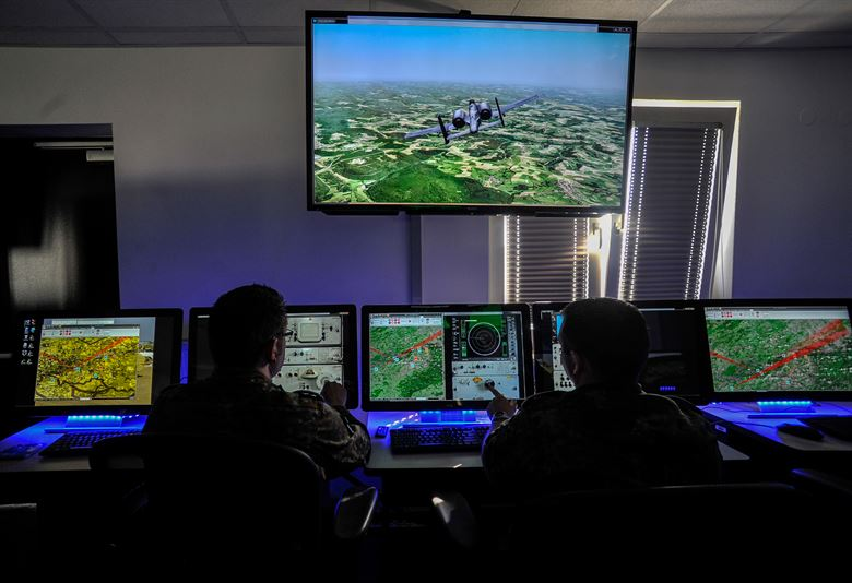 German soldiers direct a simulated surface-to-air attack during a Multinational Aviation Live Virtual Constructive Training System exercise at the Polygone Control Center in Bann, Germany, March 18, 2015. The Polygone Electronic Warfare Range enhanced its training capabilities to provide service members a life-like experience with the use of the PCC.